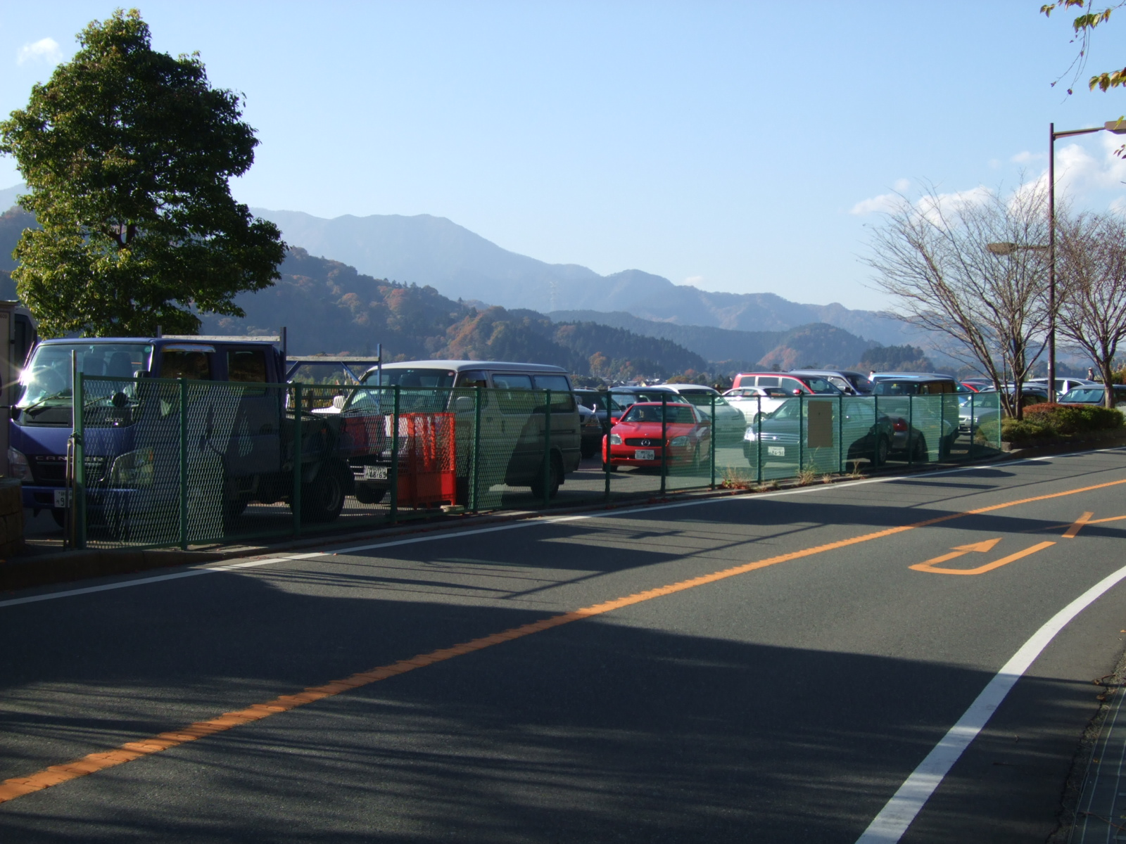 Ootanasawa Parking